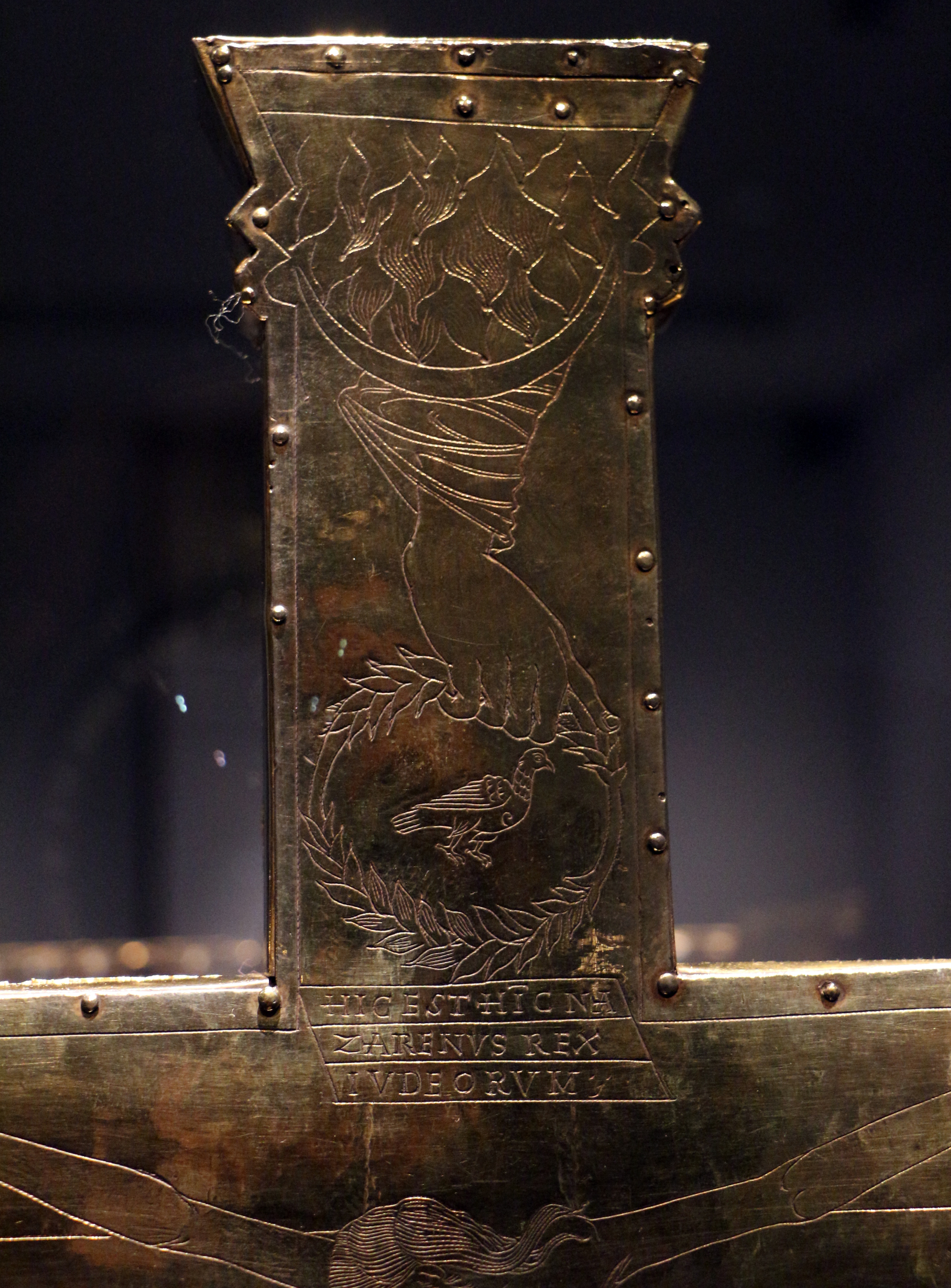 Domschatz, Aachen